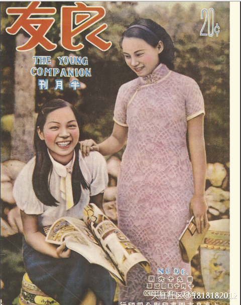 Cover of Liangyou magazine #96 featuring actresses Chen Yanyan (陈燕燕) and Wang Renmei] (王人美).